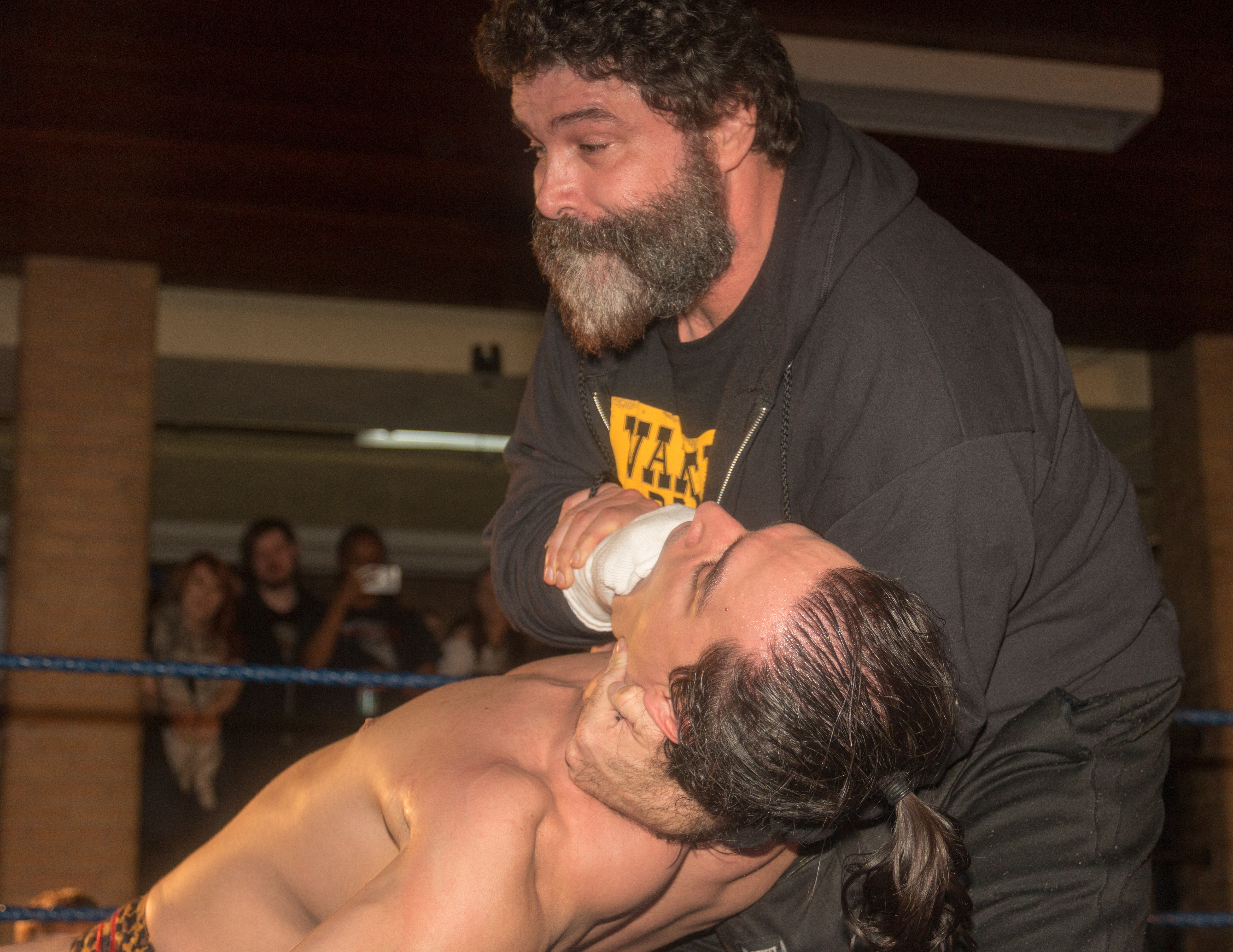 Mick Foley applying his mandible claw hold, with his sock puppet "Mr. Socko" present, on RJ City at the independent wrestling event "Foley in Greektown" in Toronto, ON